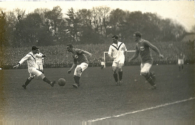 Scene from the 1909 FA Cup final, Bristol City (dark jersey) v. Manchester United.